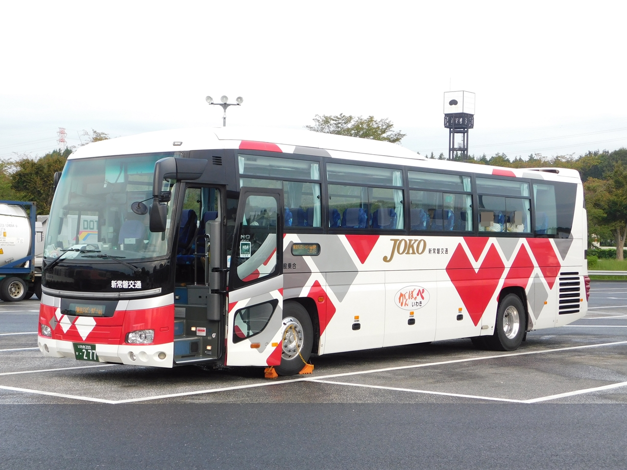 New Joban kotsu Hino S'elega highwaybus "Iwaki-Tokyo Disney Resort"